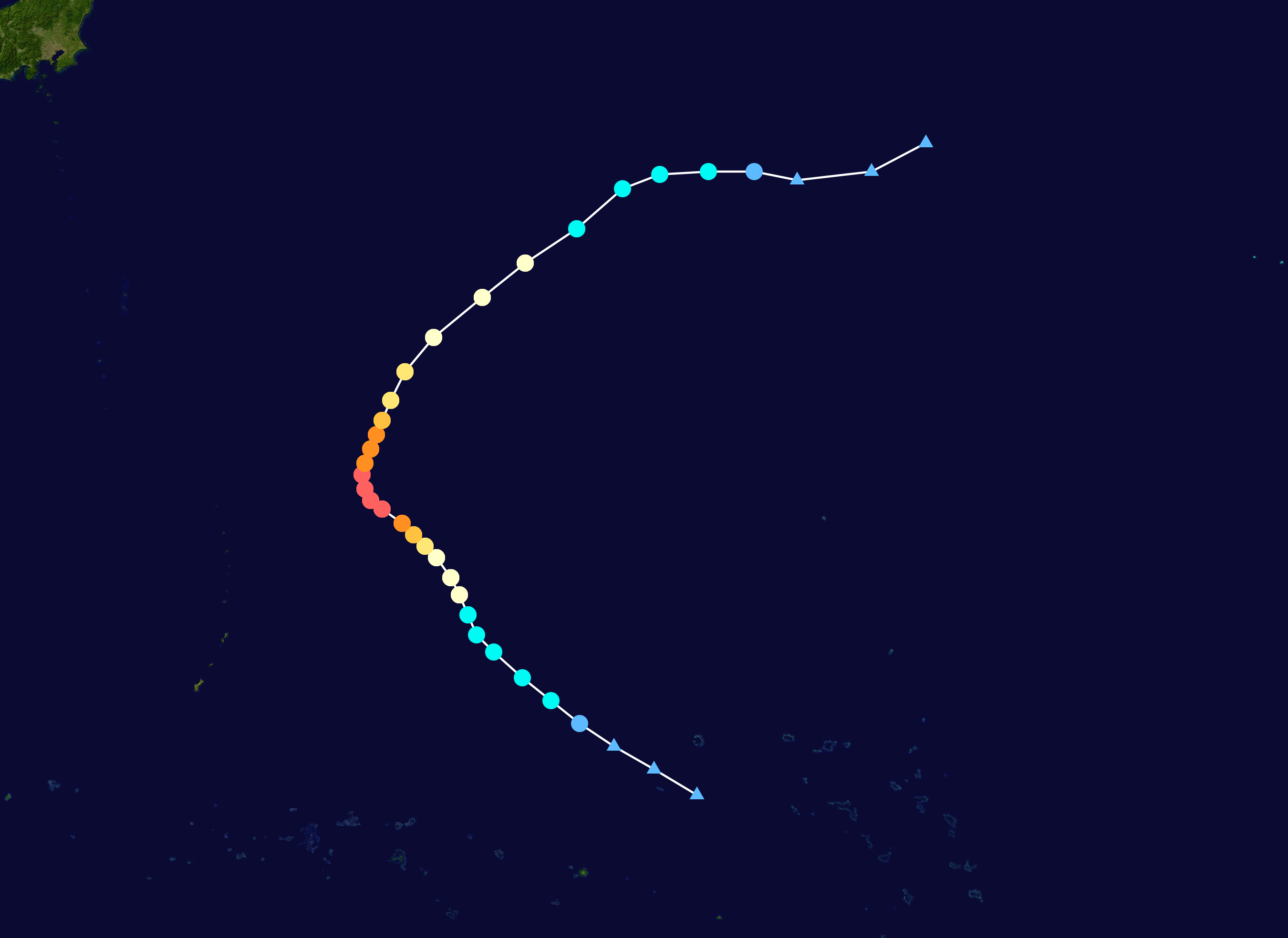 Track map of Typhoon Halong of the 2019 Pacific typhoon season. The points show the location of the storm at 6-hour intervals. The colour represents the storm's maximum sustained wind speeds as classified in the Saffir–Simpson scale (see below), and the shape of the data points represent the nature of the storm, according to the legend below. Saffir–Simpson scale Tropical depression≤38 mph≤62 km/h Category 3111–129 mph178–208 km/h Tropical storm39–73 mph63–118 km/h Category 4130–156 mph209–251 km/h Category 174–95 mph119–153 km/h Category 5≥157 mph≥252 km/h Category 296–110 mph154–177 km/h Unknown Storm type Tropical cyclone Subtropical cyclone Extratropical cyclone / Remnant low / Tropical disturbance / Monsoon depression